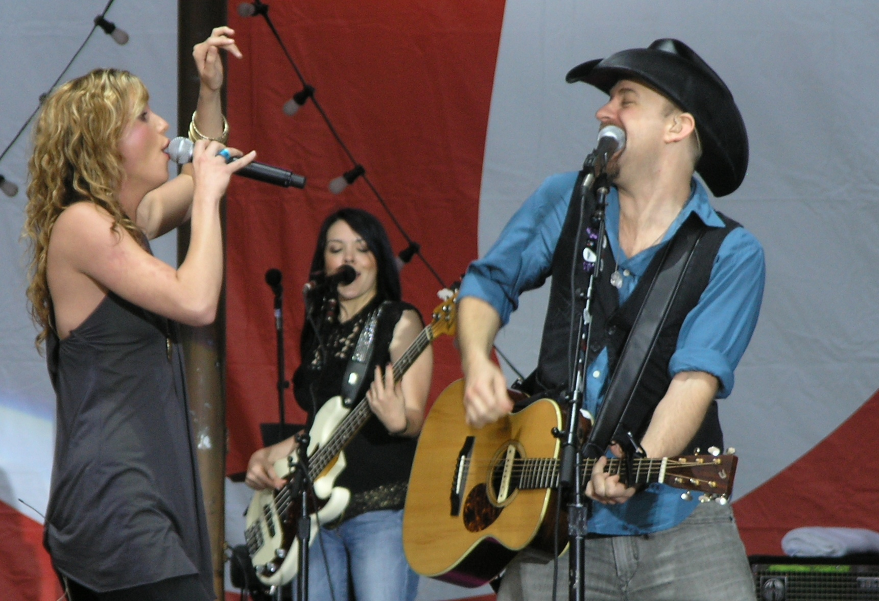 Taken during MyCokeFest at Centennial Olympic Park in Atlanta